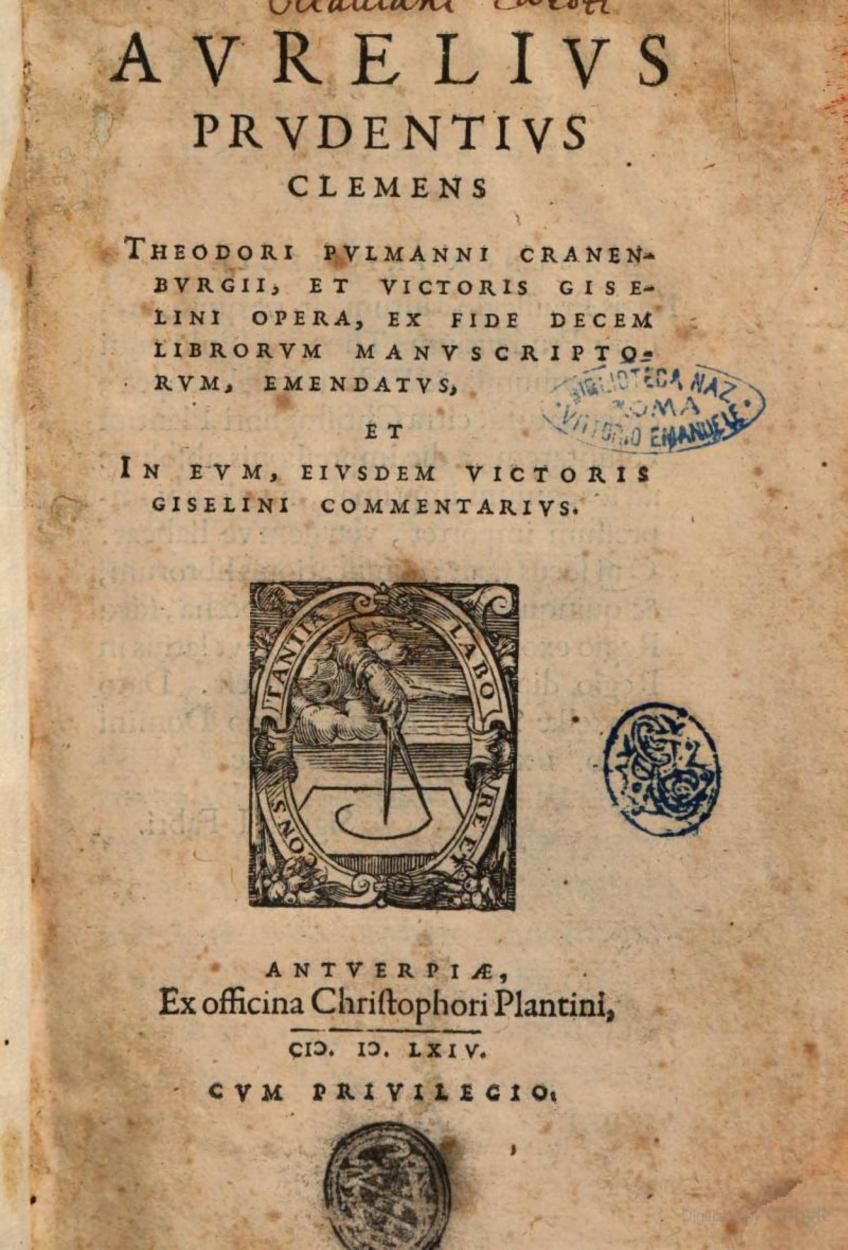 Prudentius, Works, 1564 ed, title page